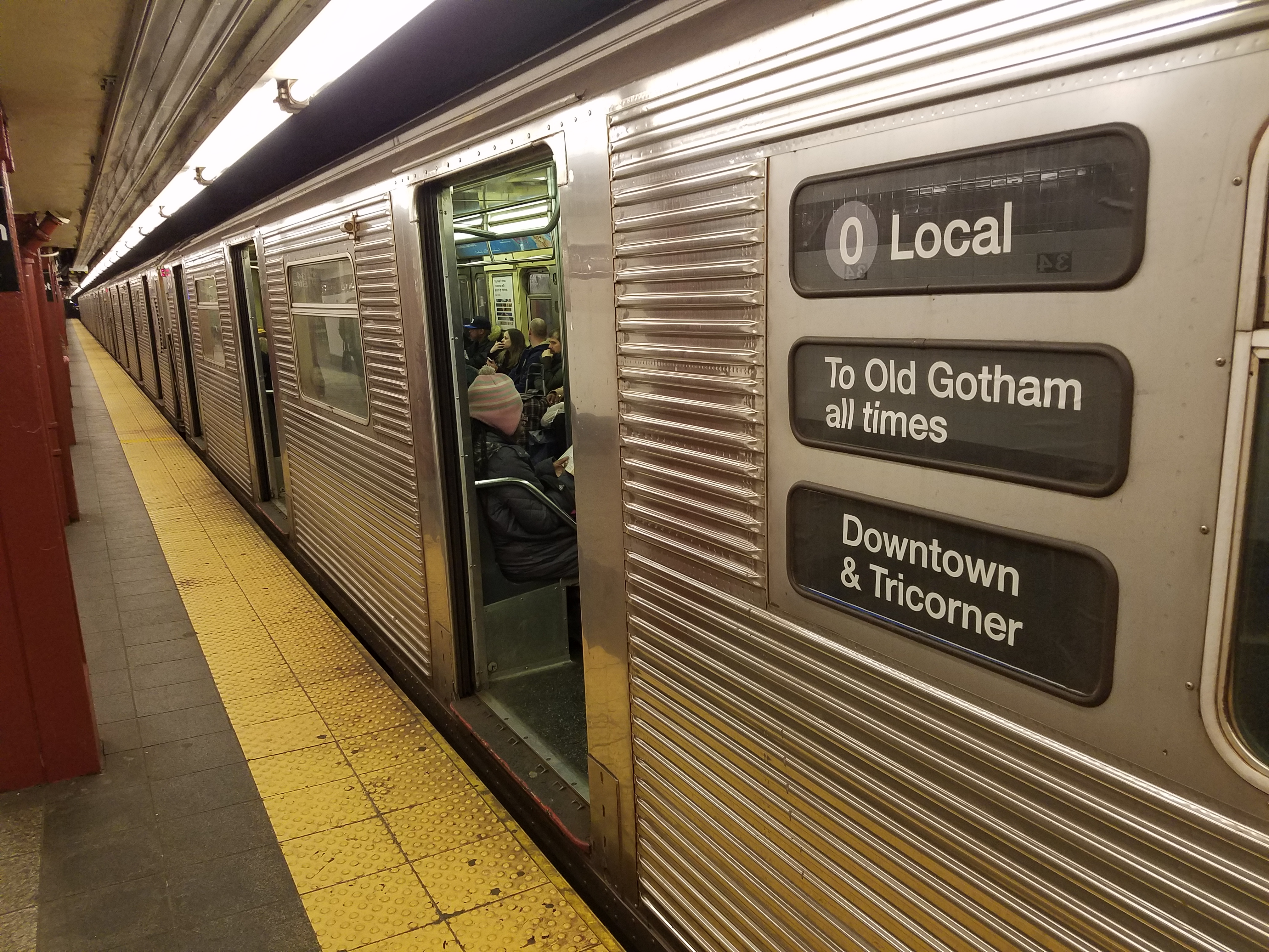 An R32 C car stopped at 34th Street–Penn Station (IND Eighth Avenue Line). The car's rollsign, which reads "0 Local to Old Gotham all times Downtown & Tricorner", is leftover from the filming of the 2019 film Joker.